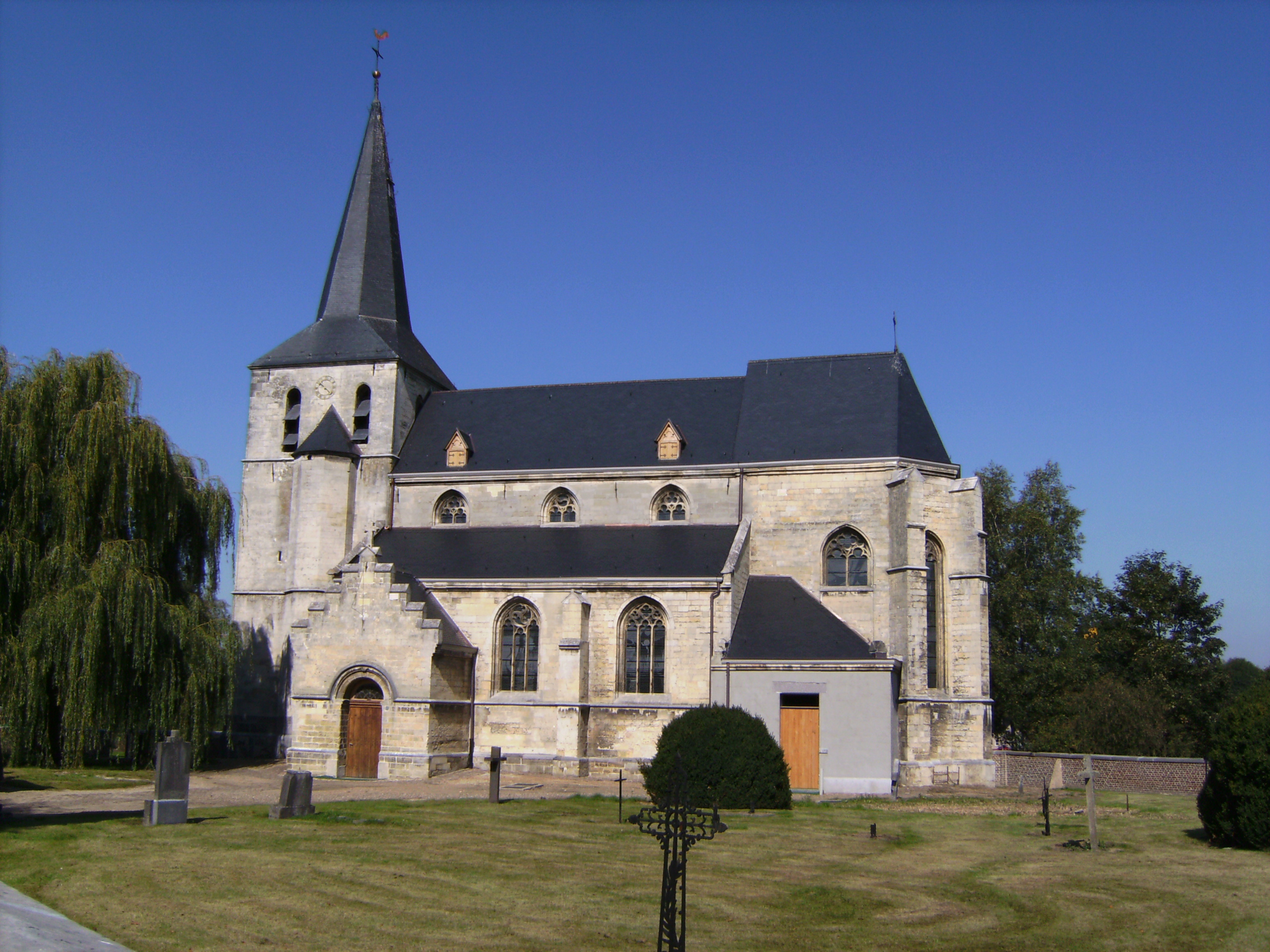 As, church: Sint Aldegondiskerk